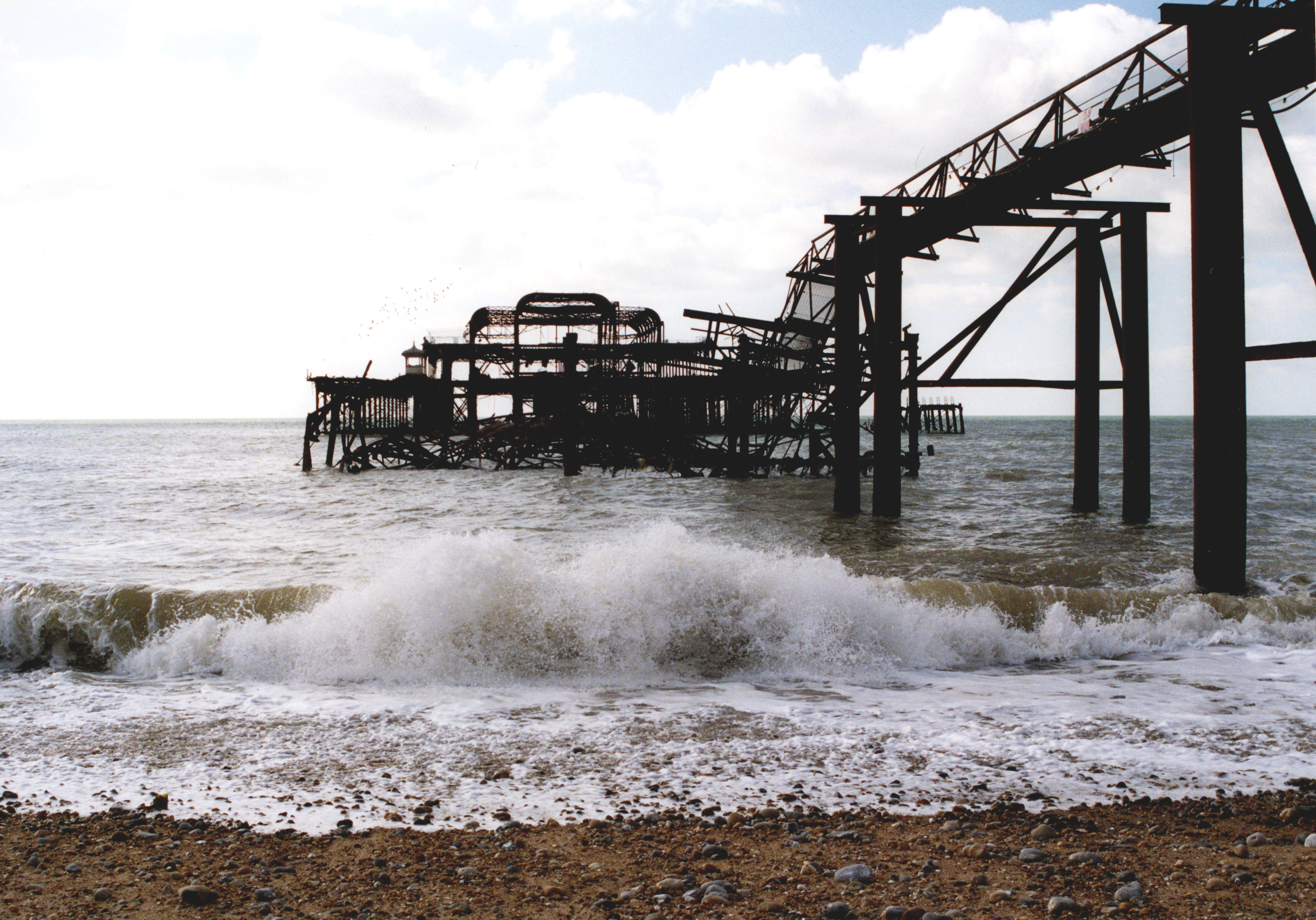 West Pier at Brighton, a rusting hulk.